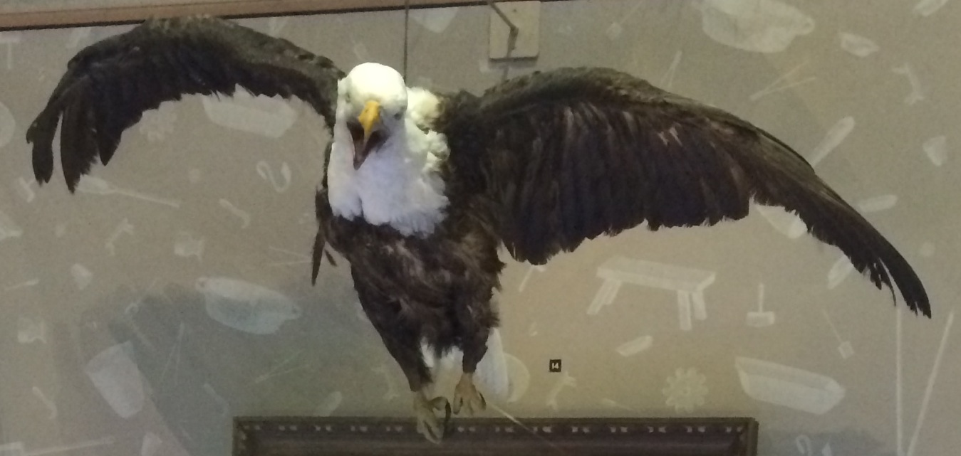 Peter the eagle, bird on display at Philadelphia Mint (died 1830s)